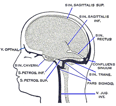 Revised diagram of cranial sinuses (in the human head) from Gray's Anatomy plate #488, adding blue pointer lines, clearing smudges, and shifting labels to magnify 17%.